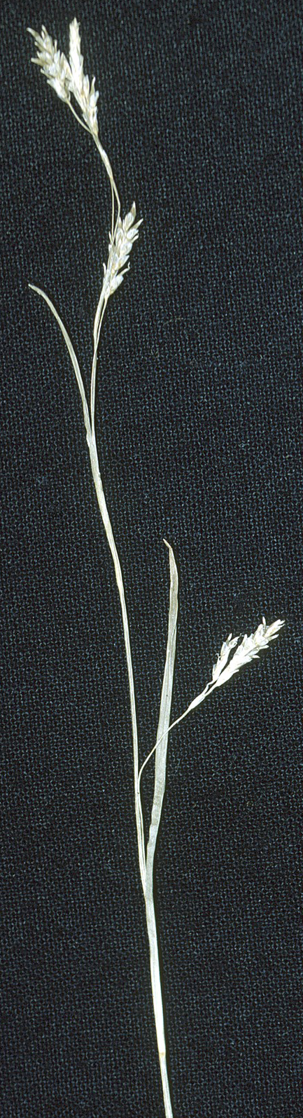 Carex capillaris L. (hair-like sedge)